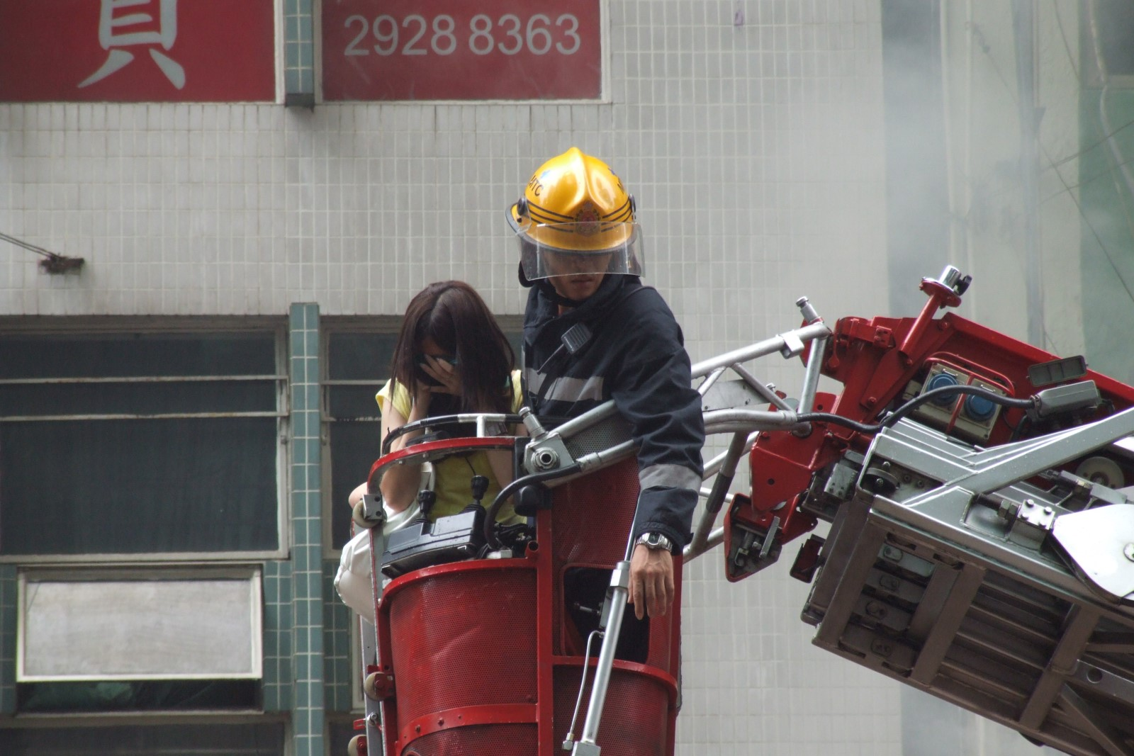 A firefighter is deliveranced the citizen.